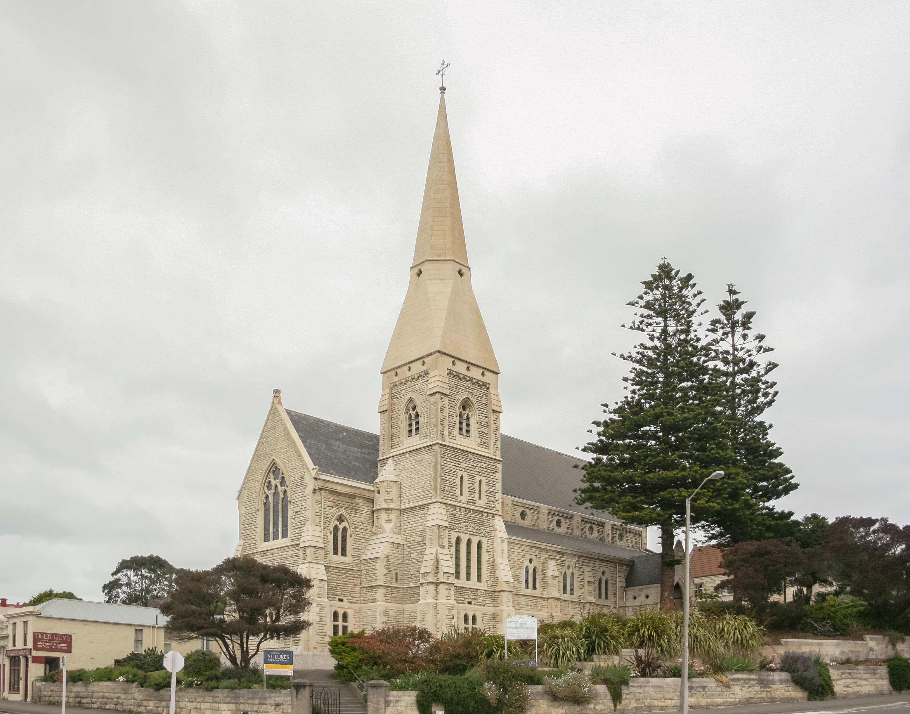 St Luke's Anglican Church, Oamaru, New Zealand